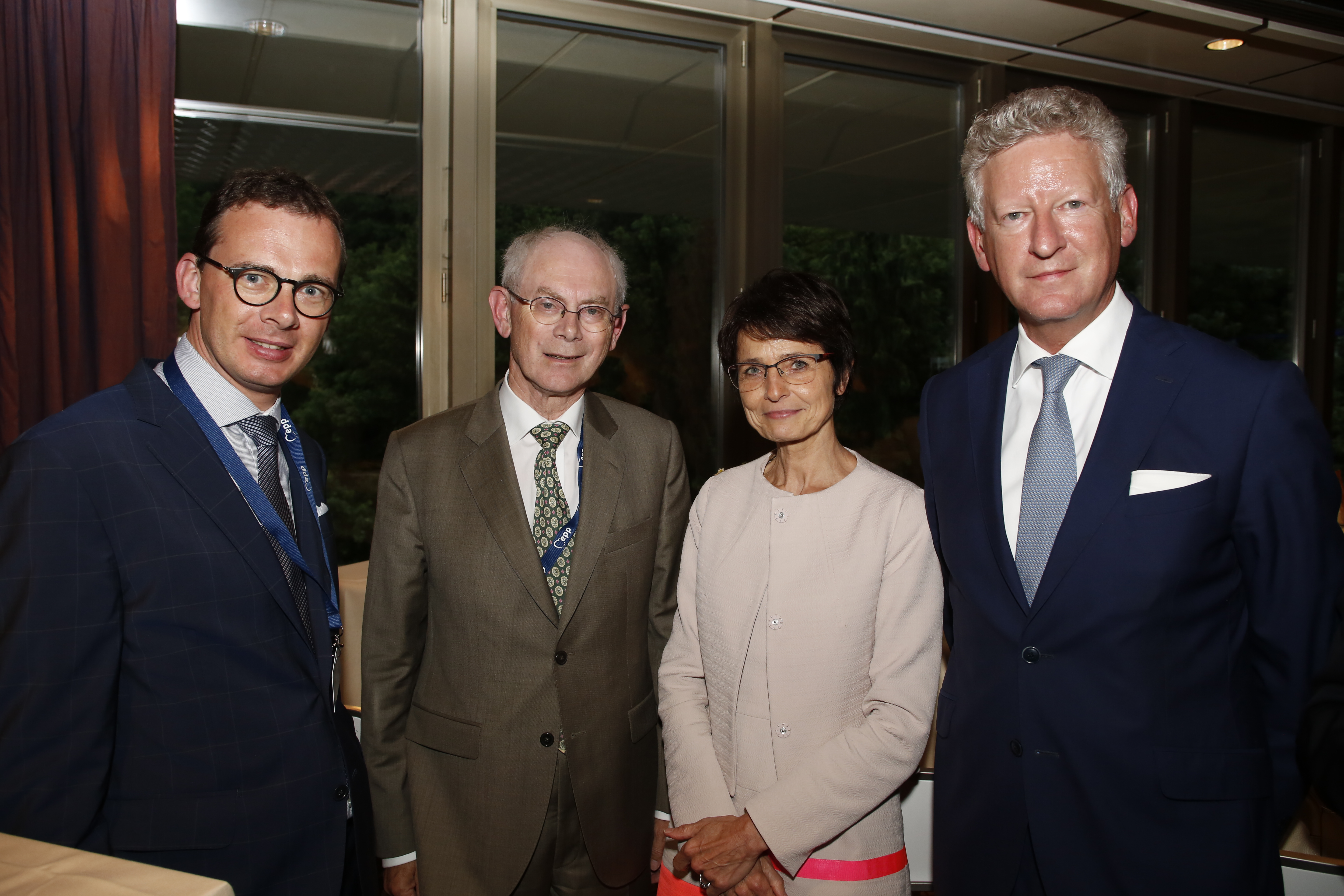 CD&V members in 40th anniversary of the European People's Party in Luxembourg